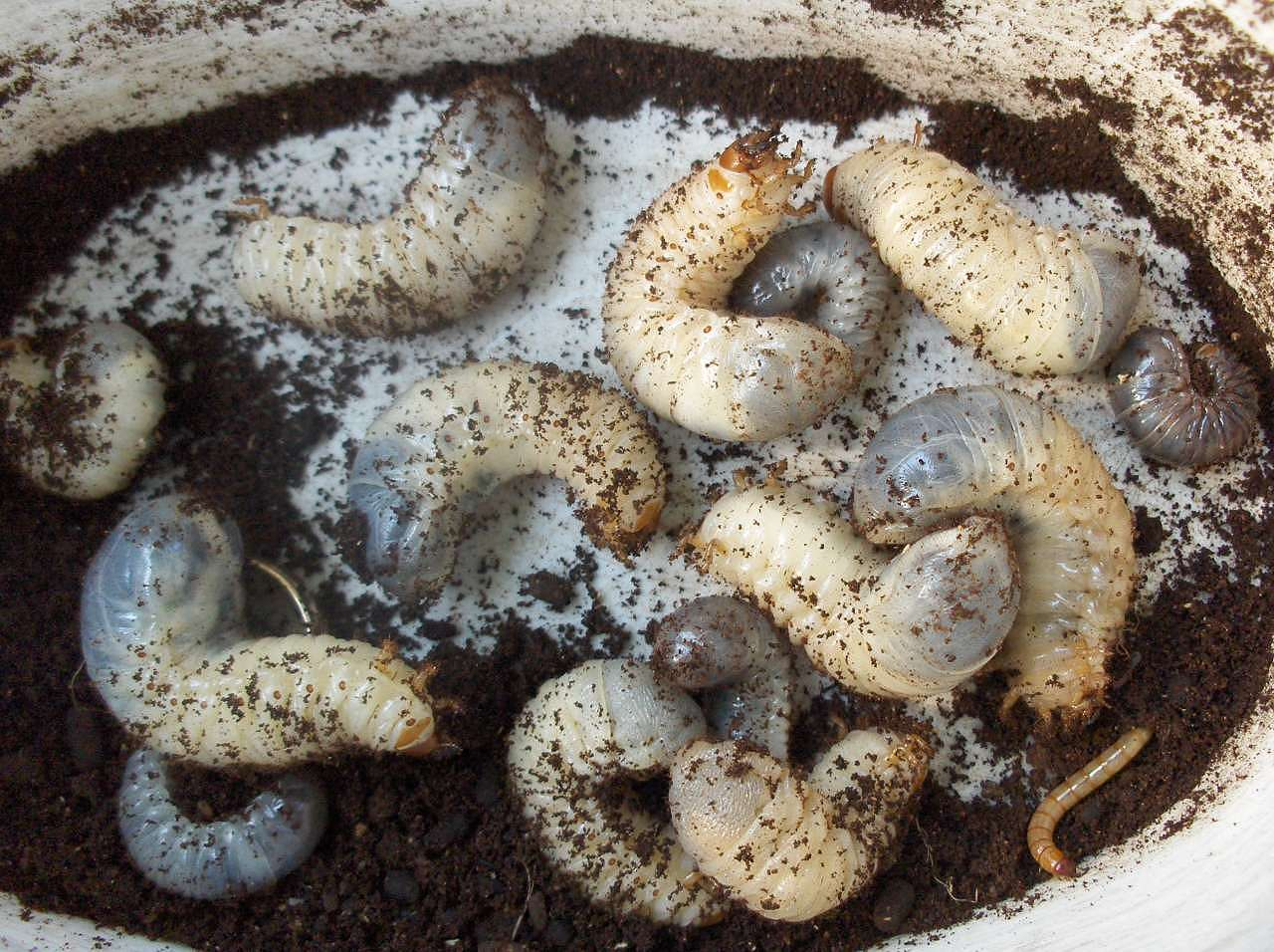 Larvae of Osmoderma eremita, first and second year